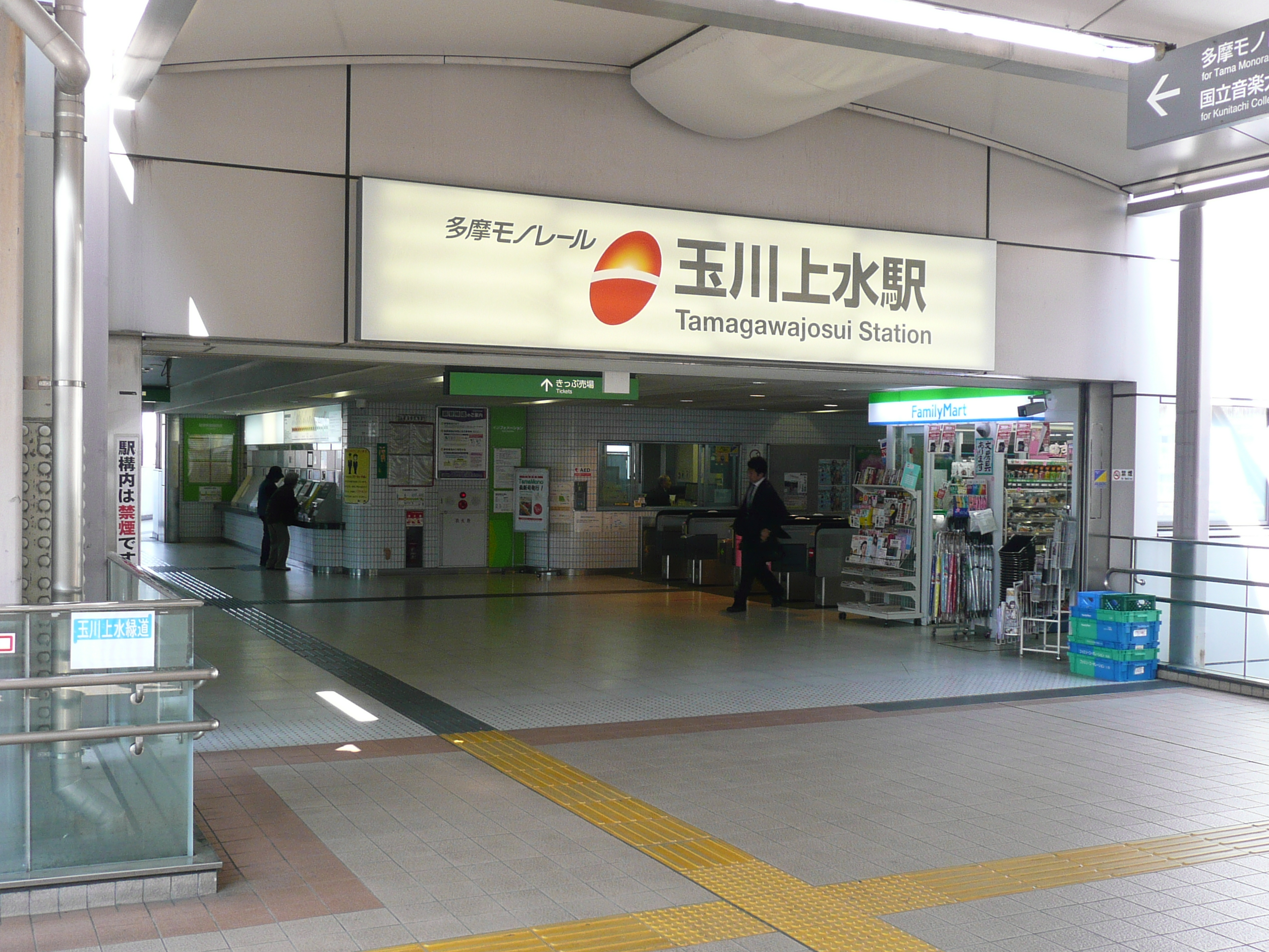 Tamagawa-Jōsui Station(Seibu Railway)